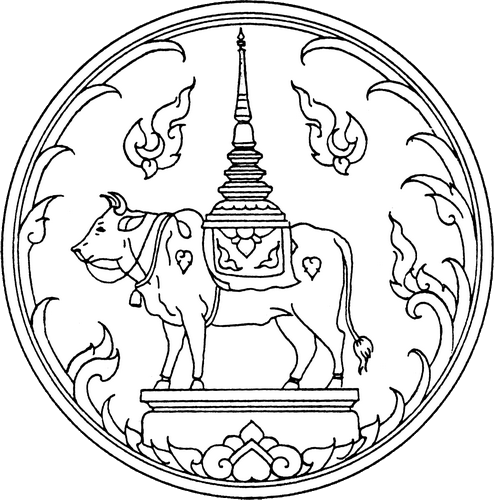 Provincial seal of Nan province.